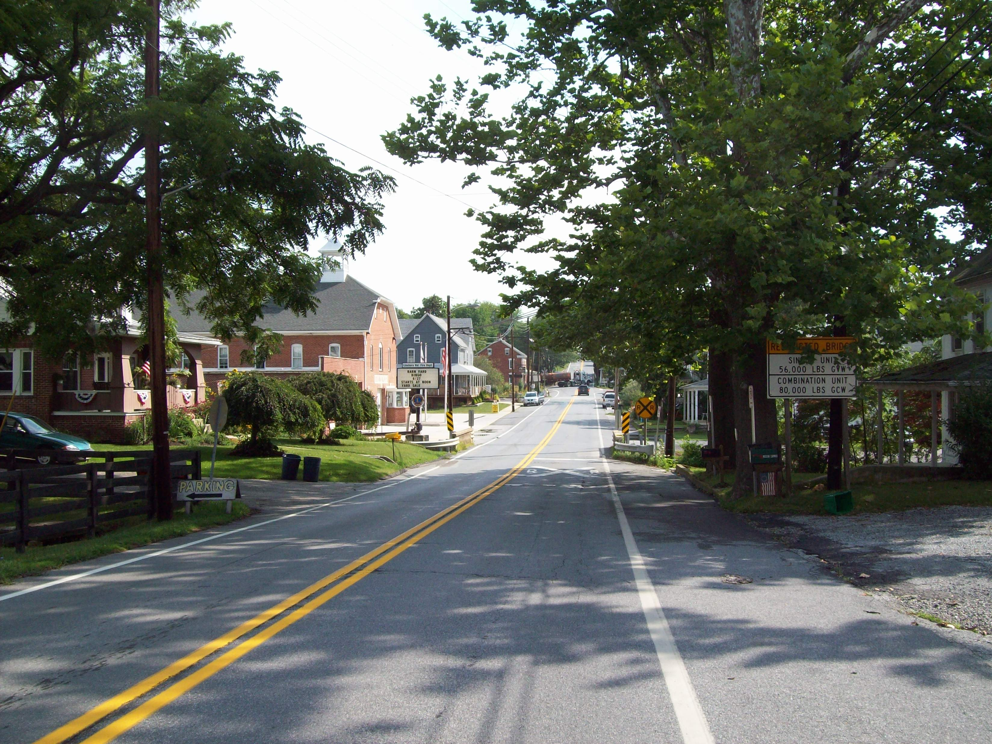 Northbound, Downtown, Lineboro, Maryland